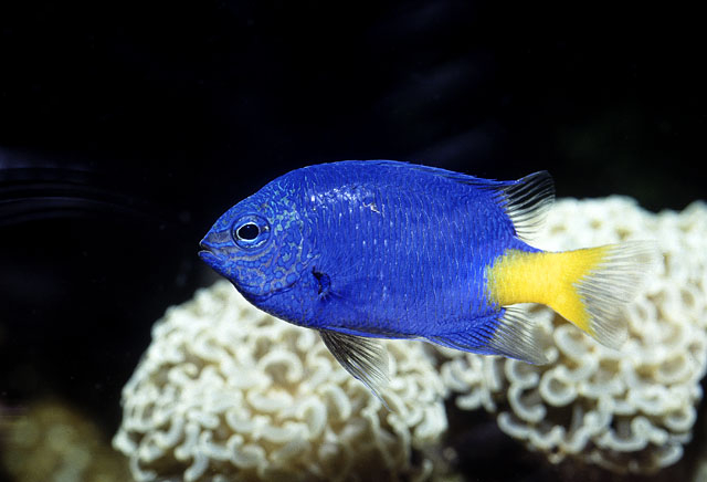 fish of the Indo-Pacific Coral Reef Ecosystem National Museum of Natural History. Fish species: Pomacentrus trichourus Yellowtail Damselfish Can be seen chasing other fish as it aggressively defends its territory. Photo by:Carl C. Hansen Neg # 96-10745